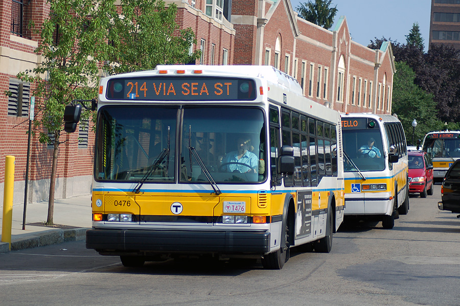 A Neoplan USA AN-440LF bus is seen at the Quincy Center bus terminal in Quincy, Massachusetts